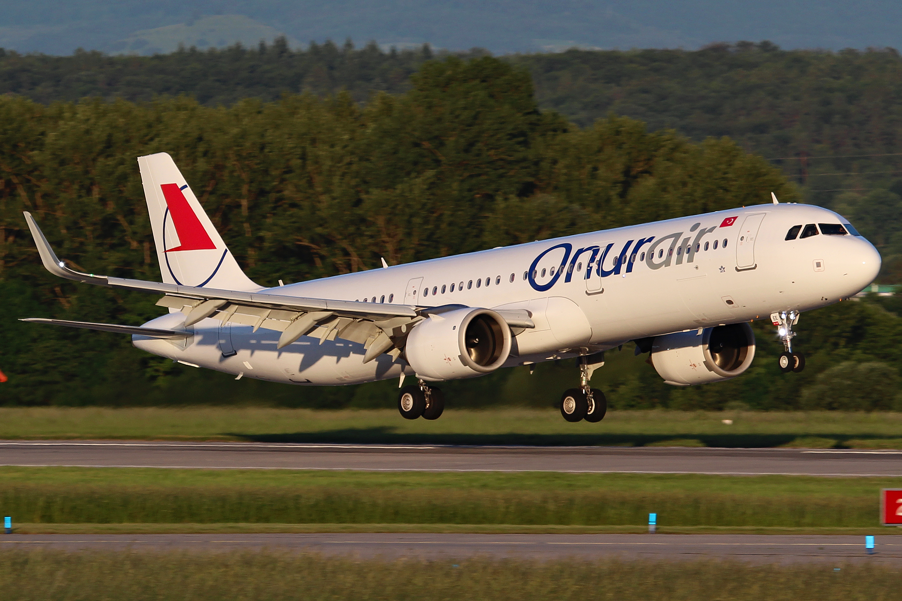 Onur Air Airbus A321neo (TC-OEE) at Stuttgart Airport.